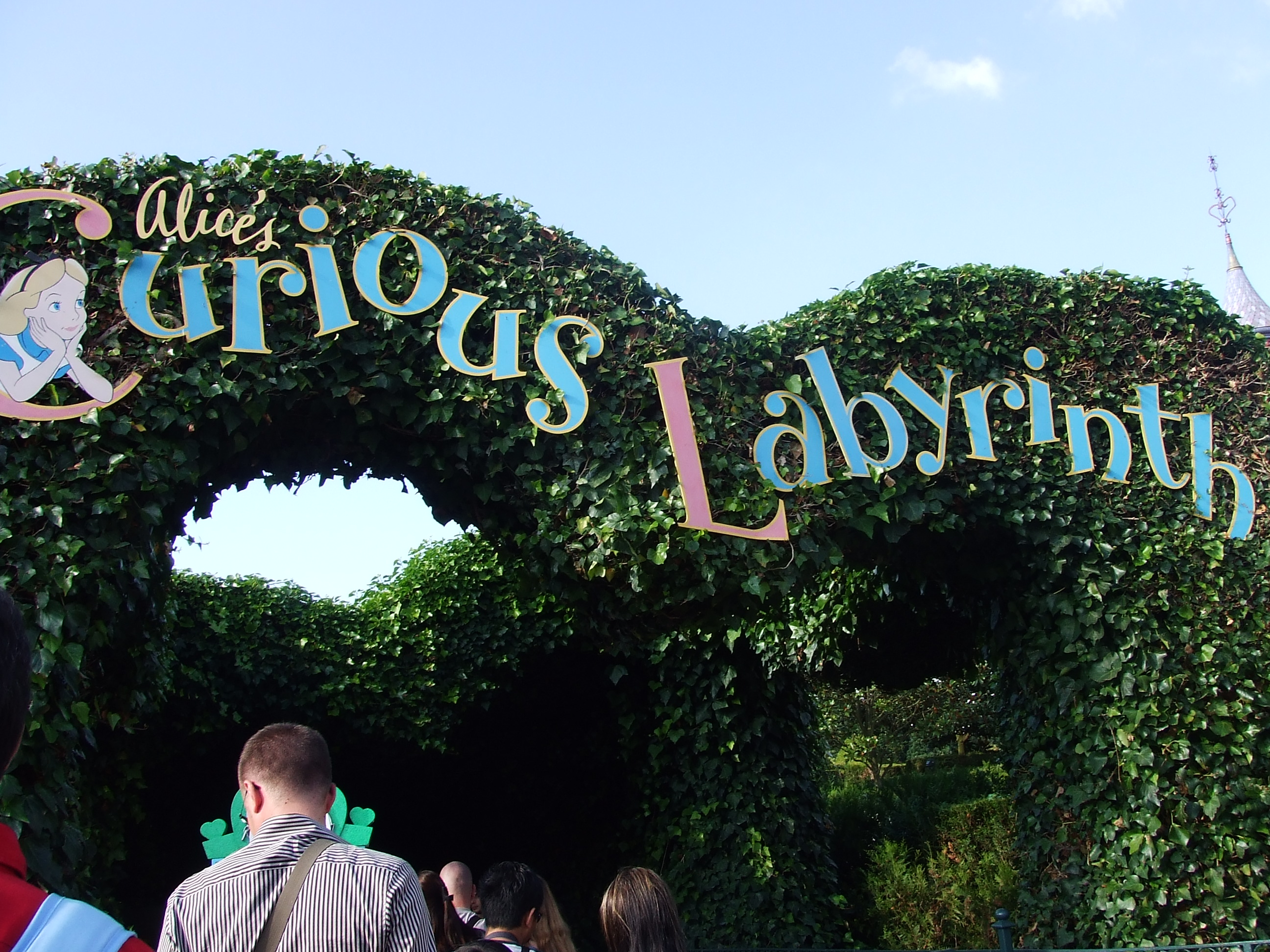 Taken by Umeumezo in DLP